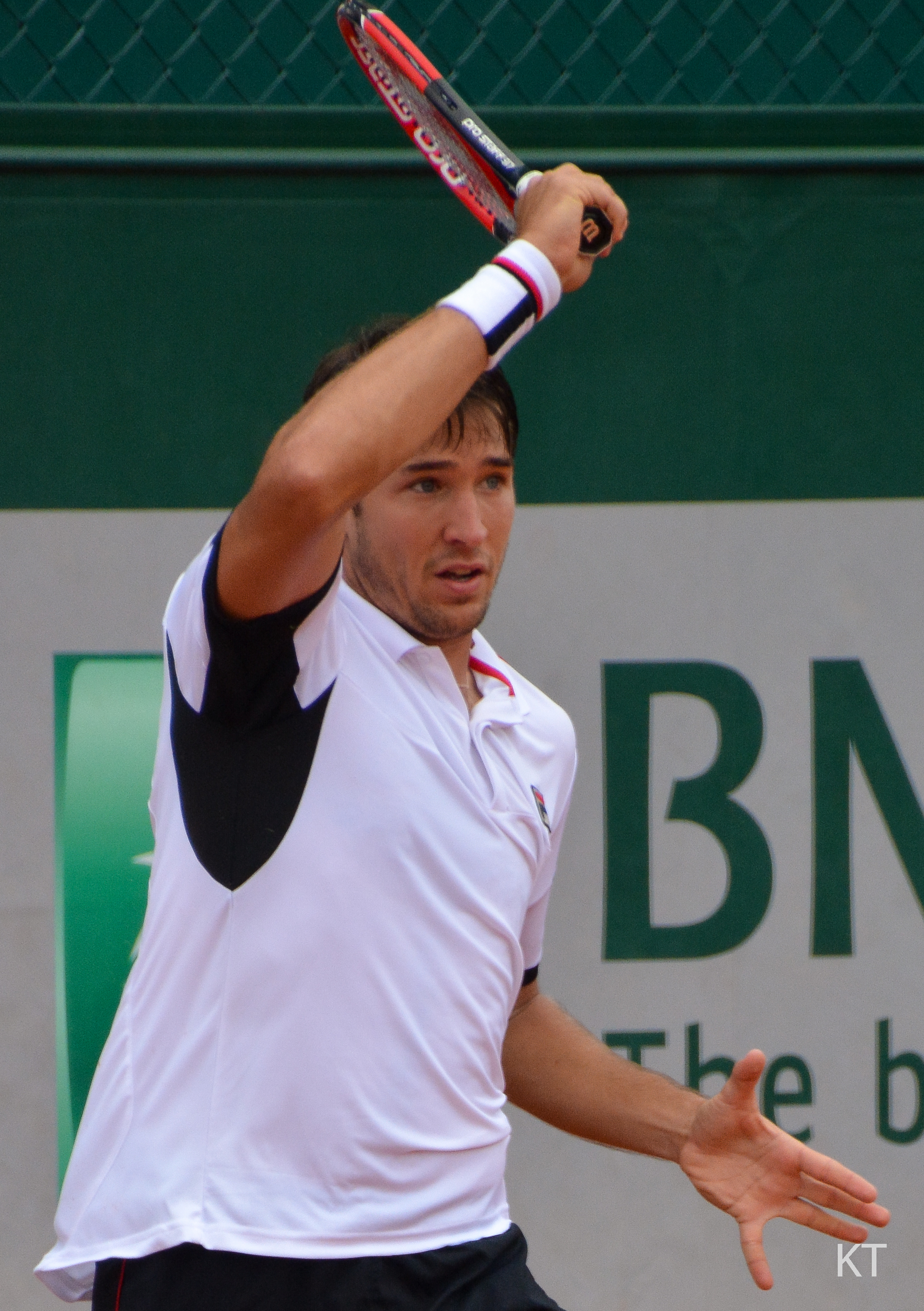 Day 2 of Roland Garros 2016.